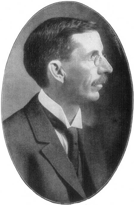 Beverly Thomas Galloway, plant pathologist and agricultural writer